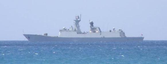 A Type 054A frigate in action in Nan Hai. (054A Frigate)